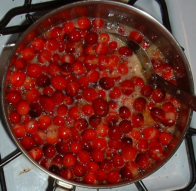 cooking cranberries